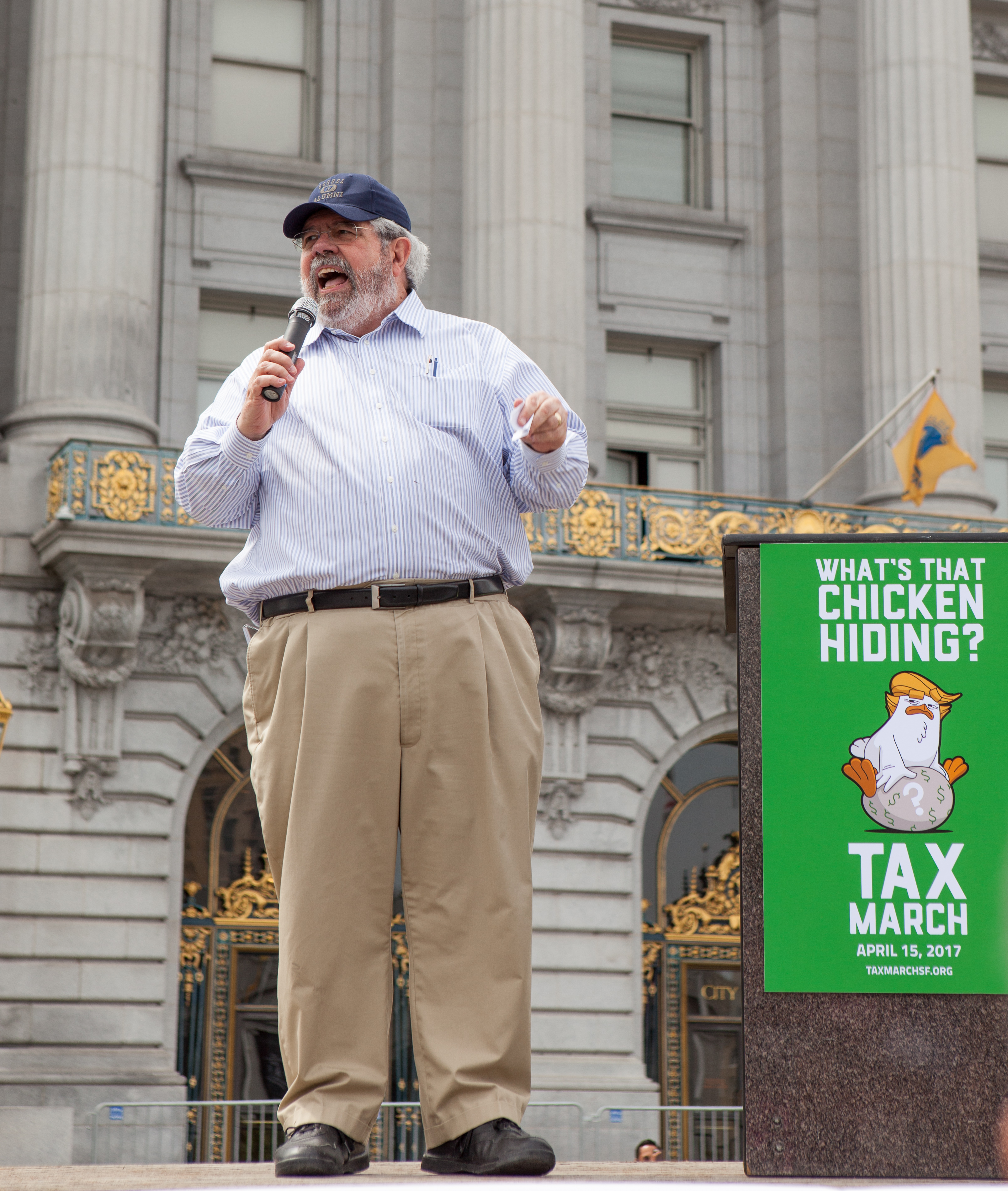 David Cay Johnston speaks at Civic Center for Tax March San Francisco.